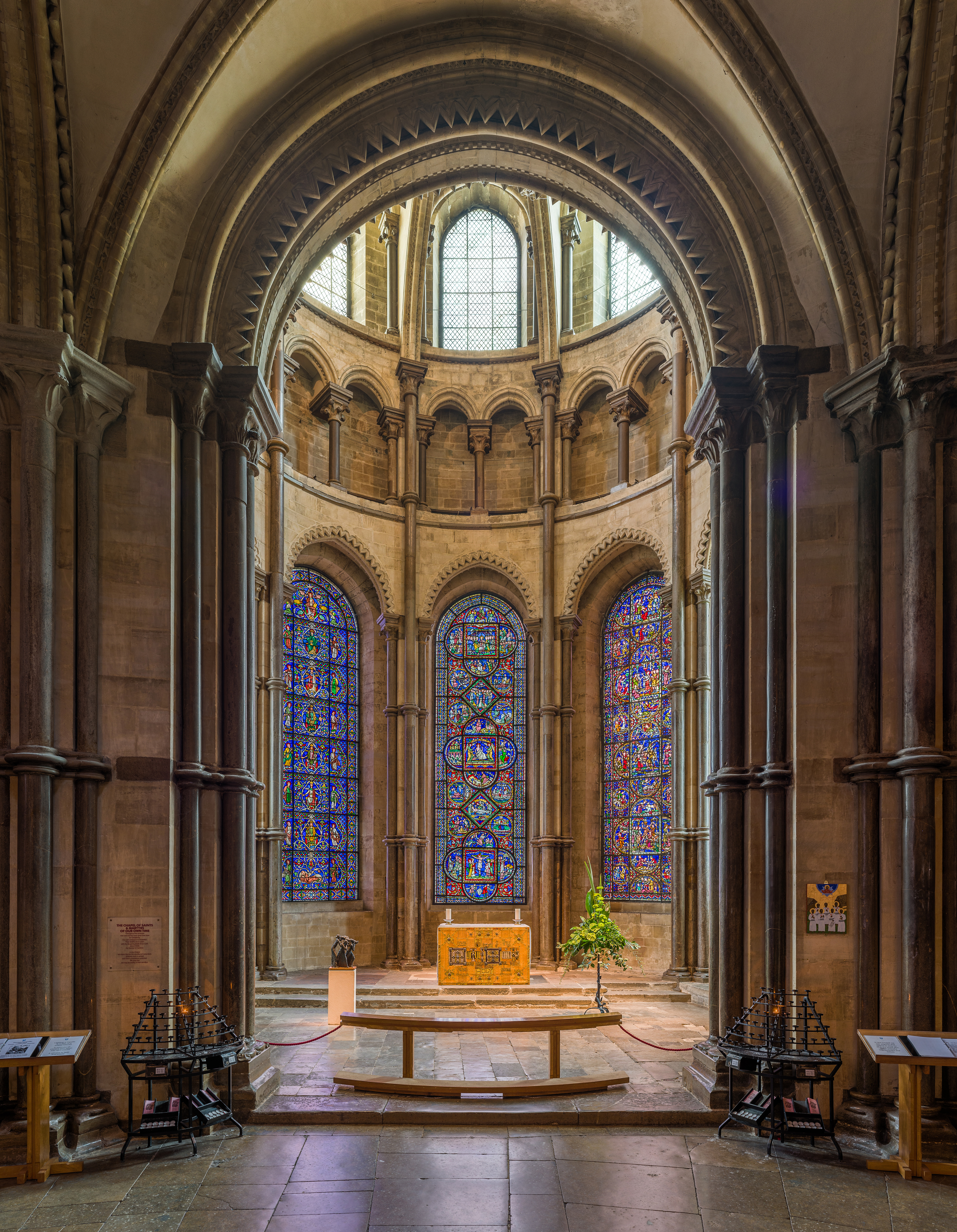 Becket's Crown, the eastern most point of Canterbury Cathedral in Kent, England.